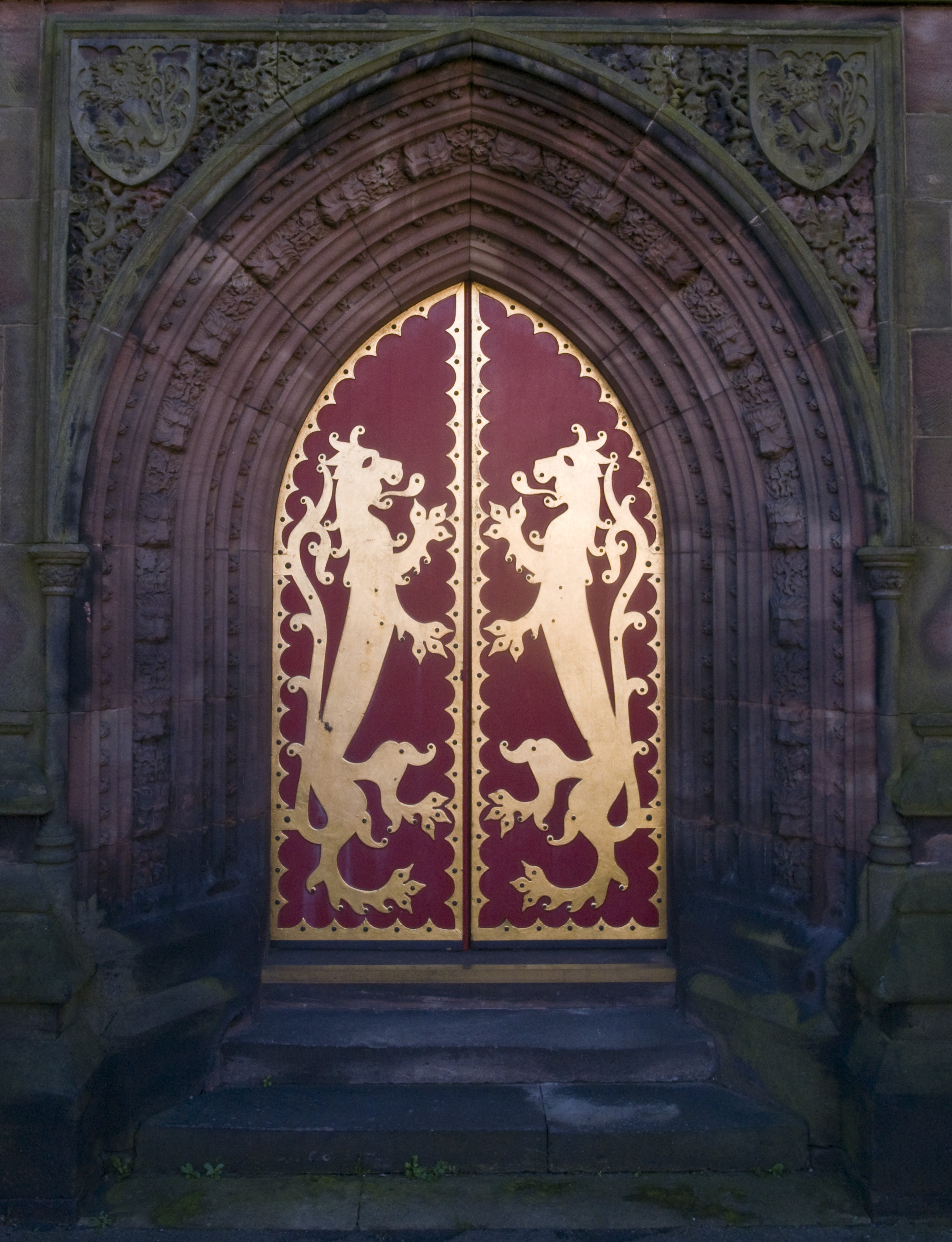 West door of St. Giles' Catholic Church, Cheadle, Staffordshire, England.